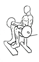 an exercise of calves